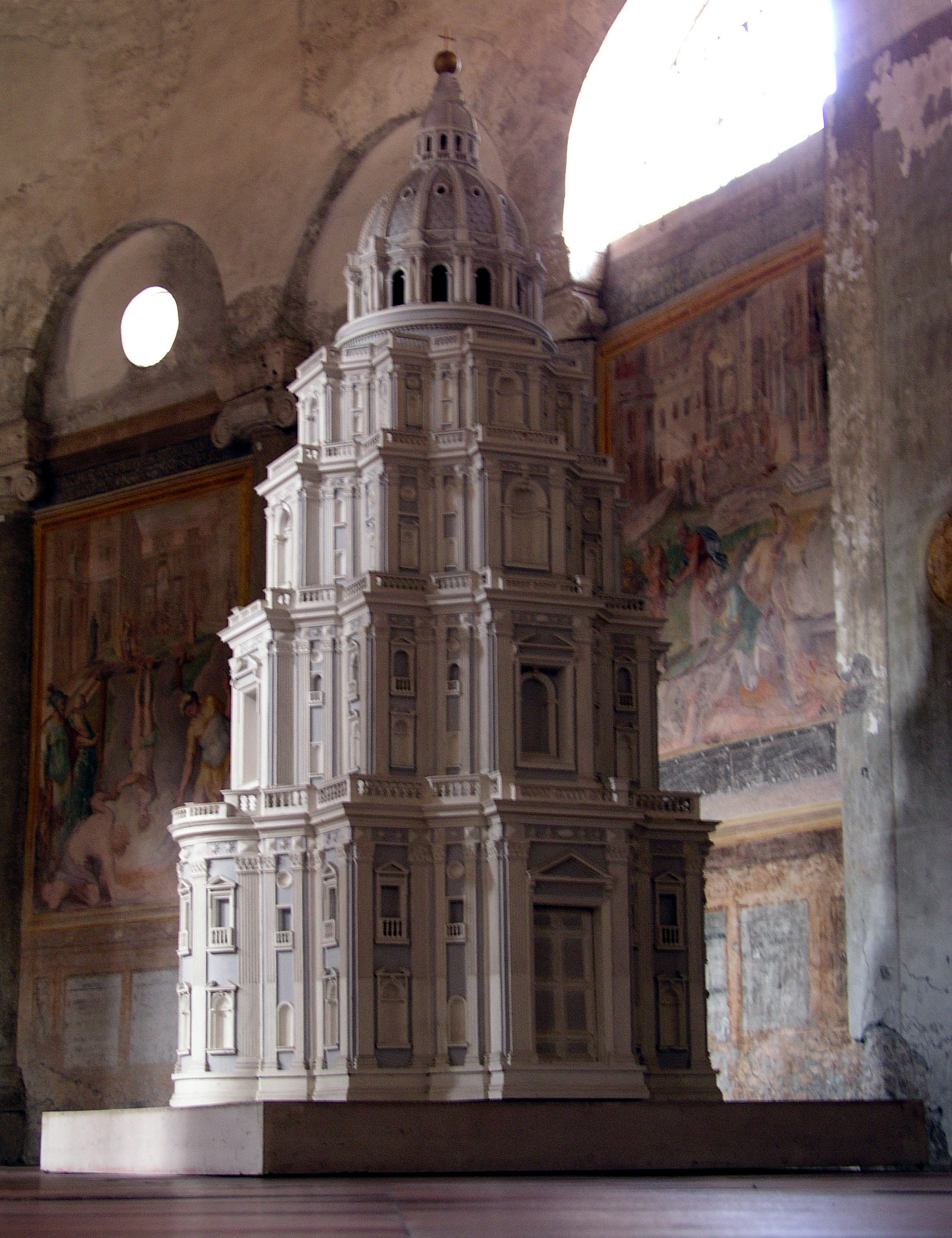 model renaissance church inside the san stefano rotondo